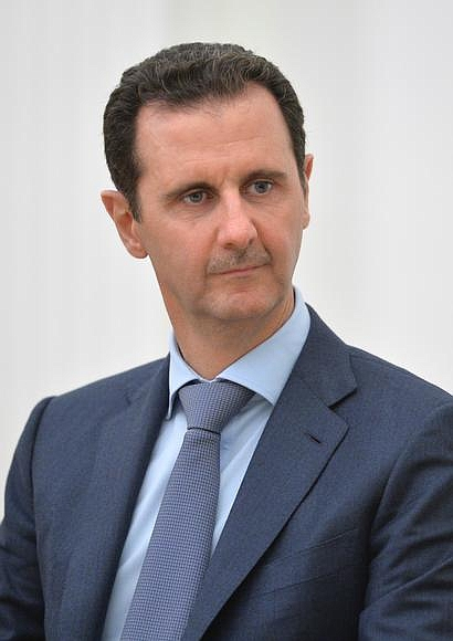 Bashar al Assad meeting Russian president Vladimir Putin